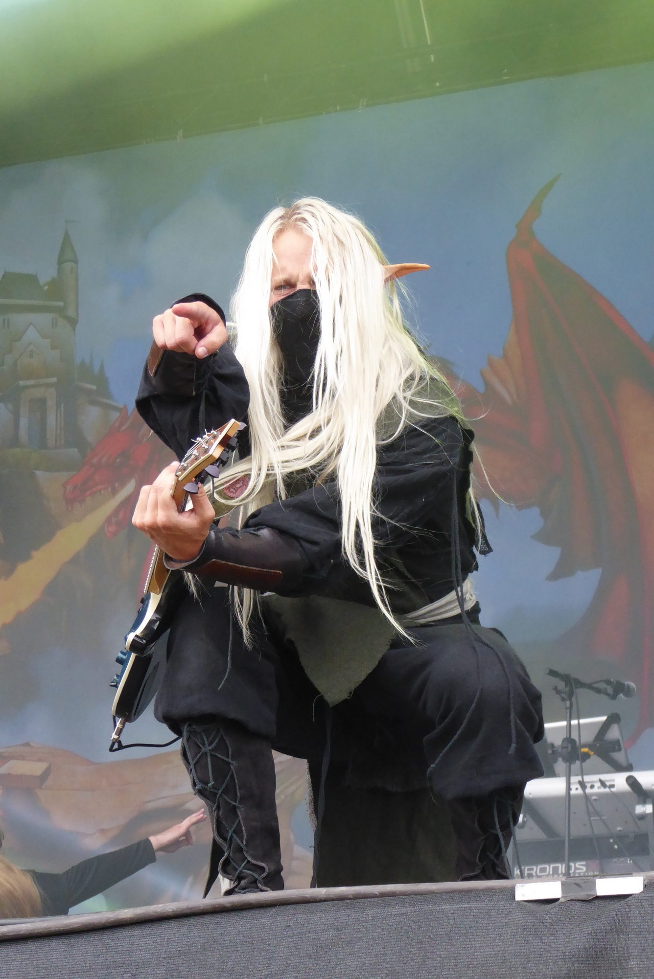 Twilight Force at RockHarz 2016; Aerendir kneel